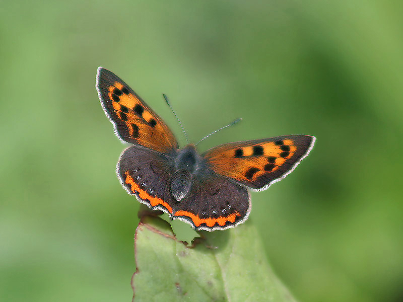 Common Copper Lycaena phlaeas taken in Kullu distt. of Himachal Pradesh, India during Saurkundi Pass Trek.